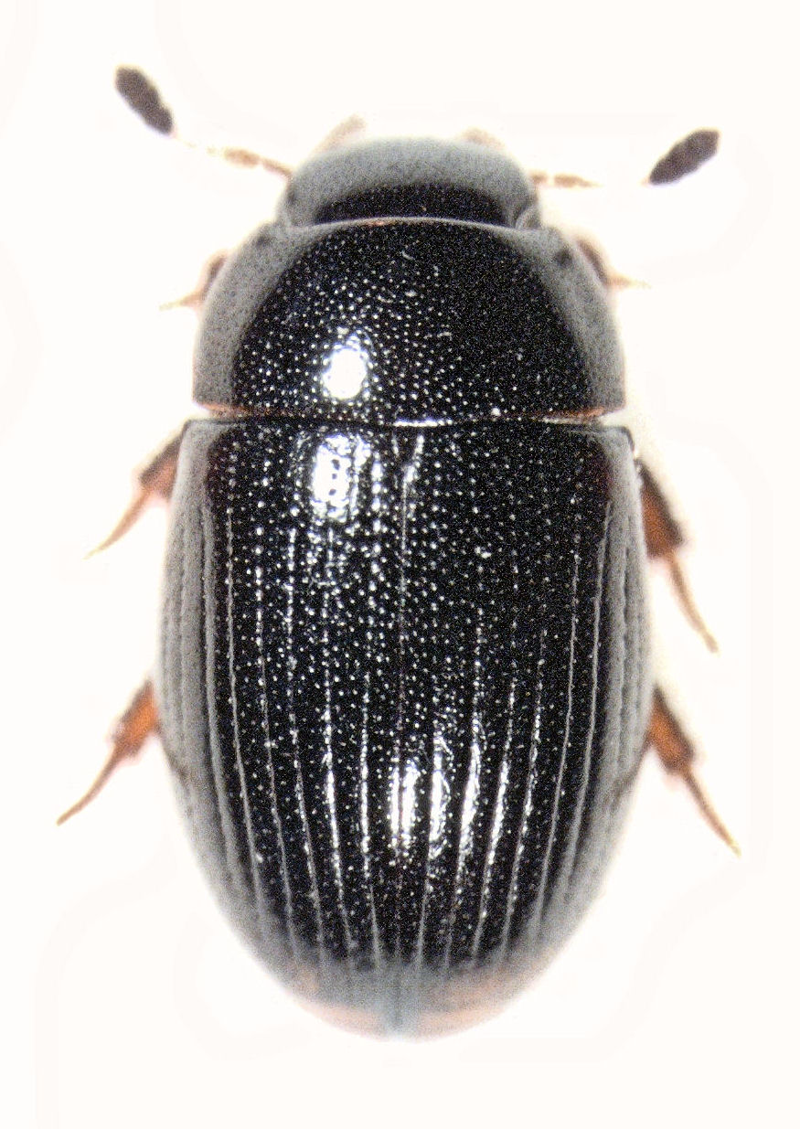 adult Cercyon depressus sensu Kuschel, 1990 (dorsal view), could be C. arenarius if this is a species distinct from C. depressus?